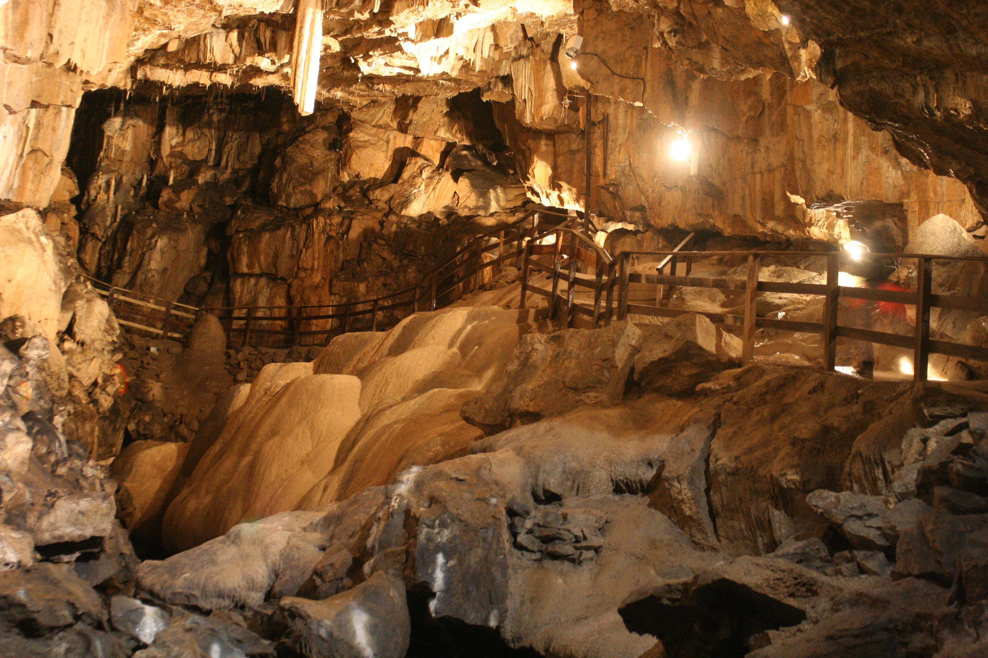 Poole's Cavern, in Buxton, Derbyshire, England.